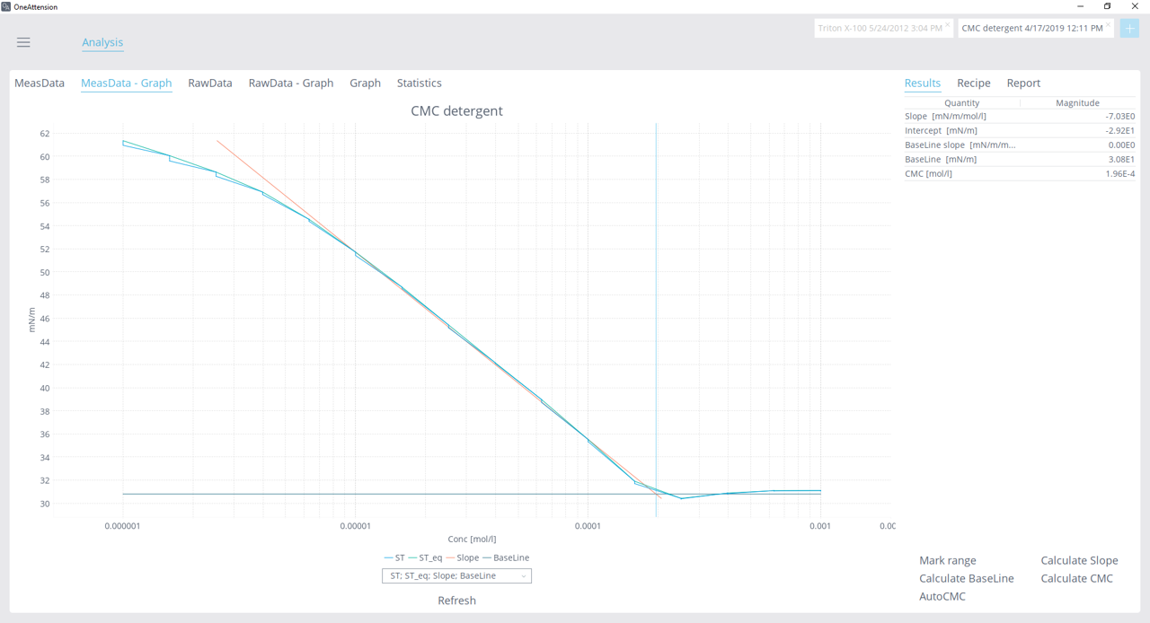 Critical micelle concentration (CMC) curve Attension Sigma 701